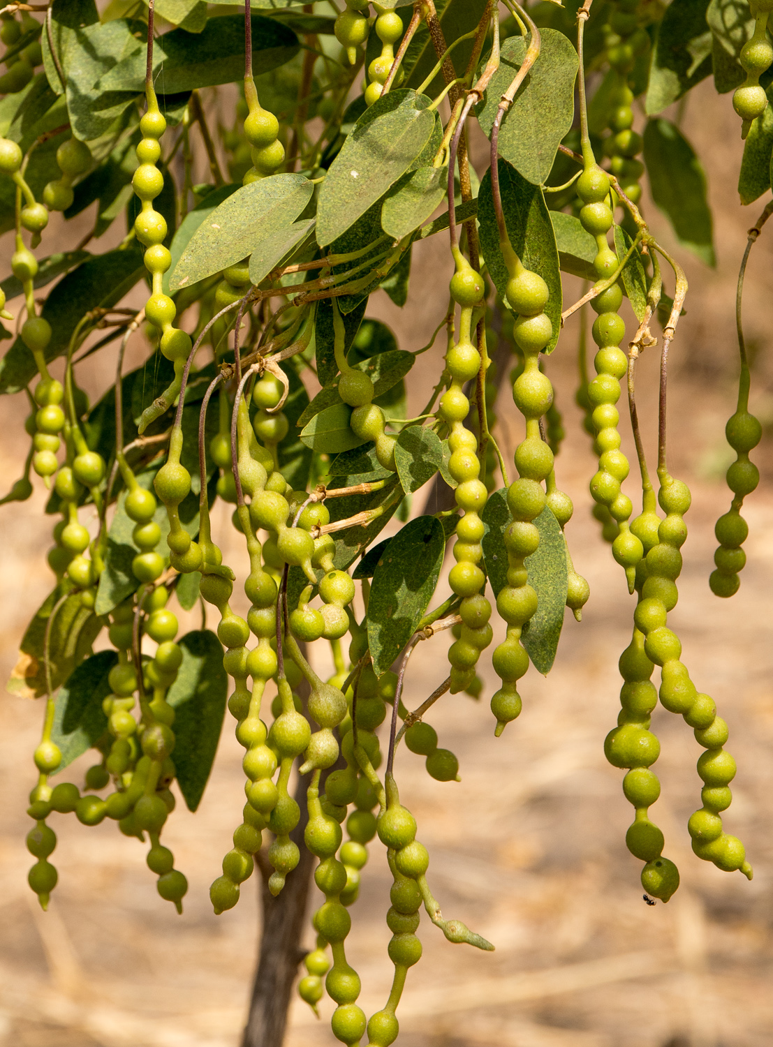 Maerua angolensis fruit. Taken near Sandiara, Senegal.